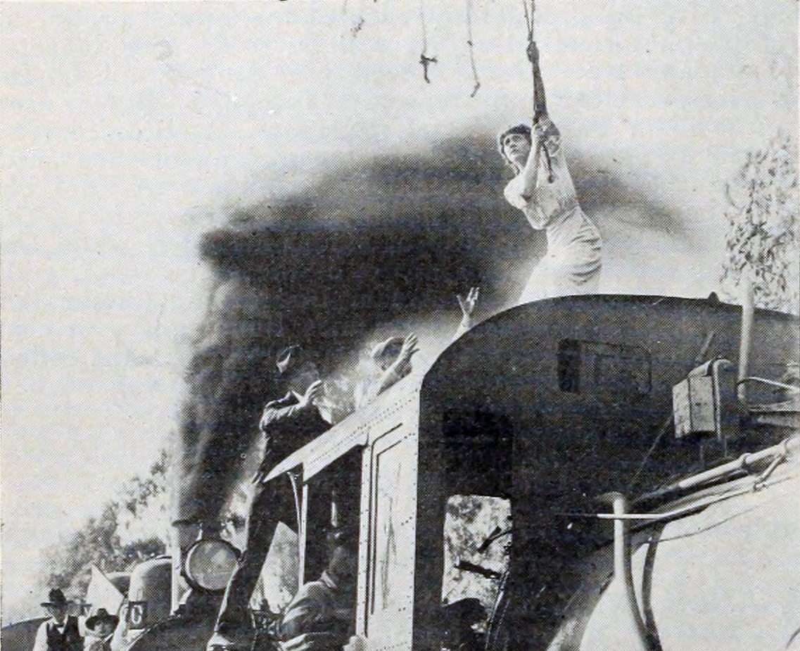 Illustration of an article in The Moving Picture World. "To Save the Road" was episode 87 of the film serial The Hazards of Helen.